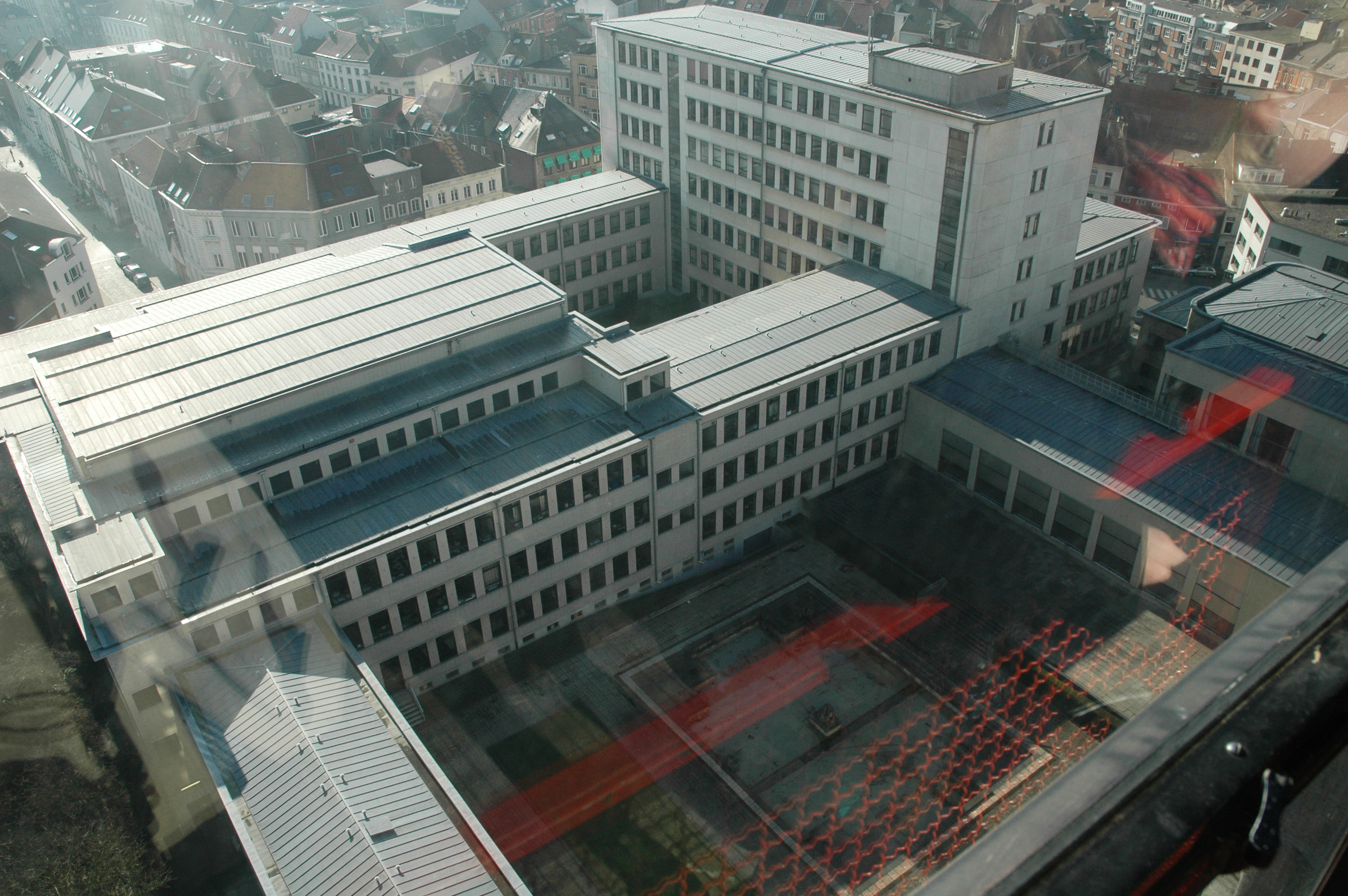 The Blandijn complex of Ghent University in Ghent, Belgium, as seen from the Belvédère of the Boektoren (Booktower), on 17 February 2011